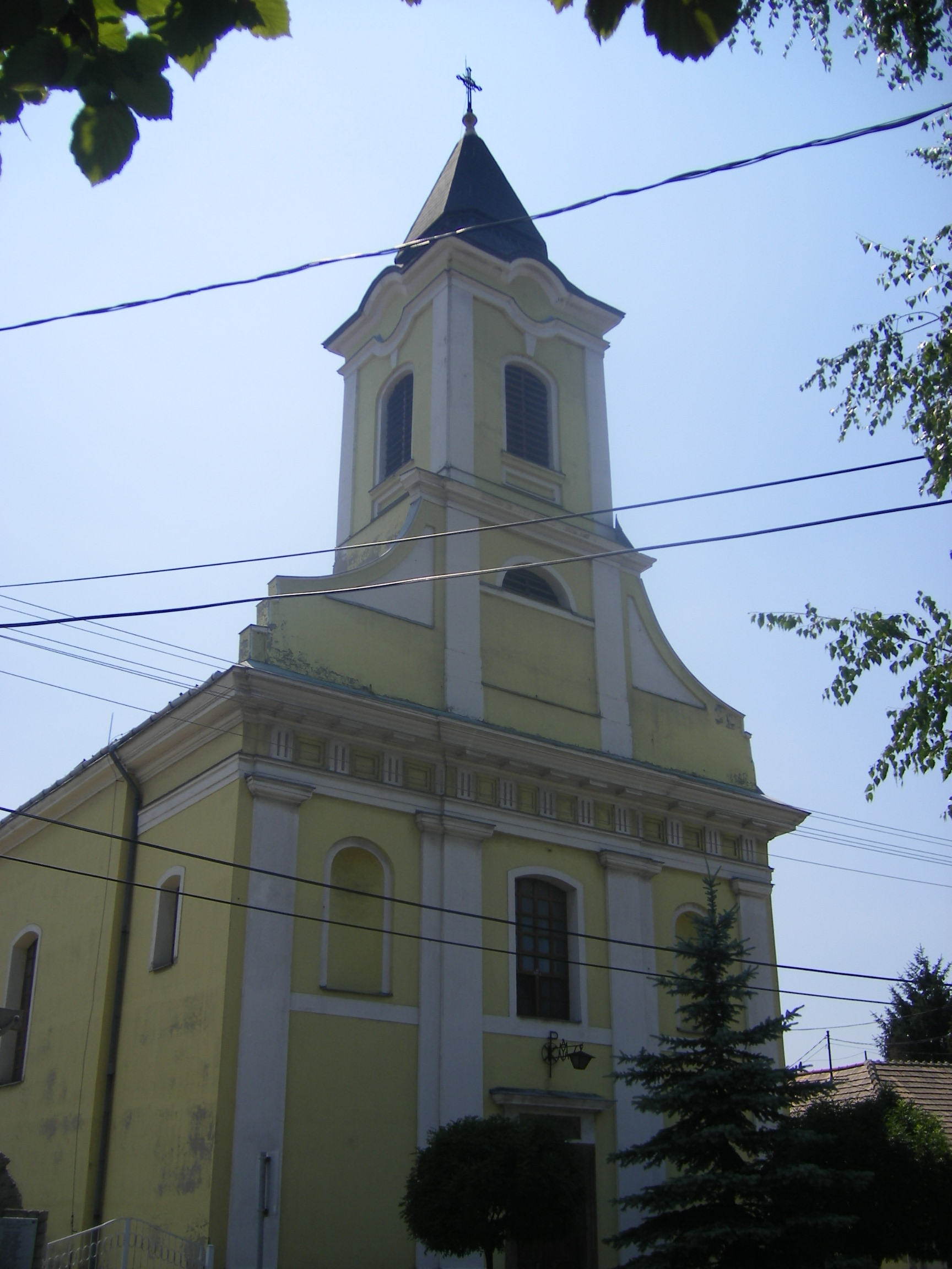 Immaculate Conception and Saint Gall Church, Alsógalla (Tatabánya)